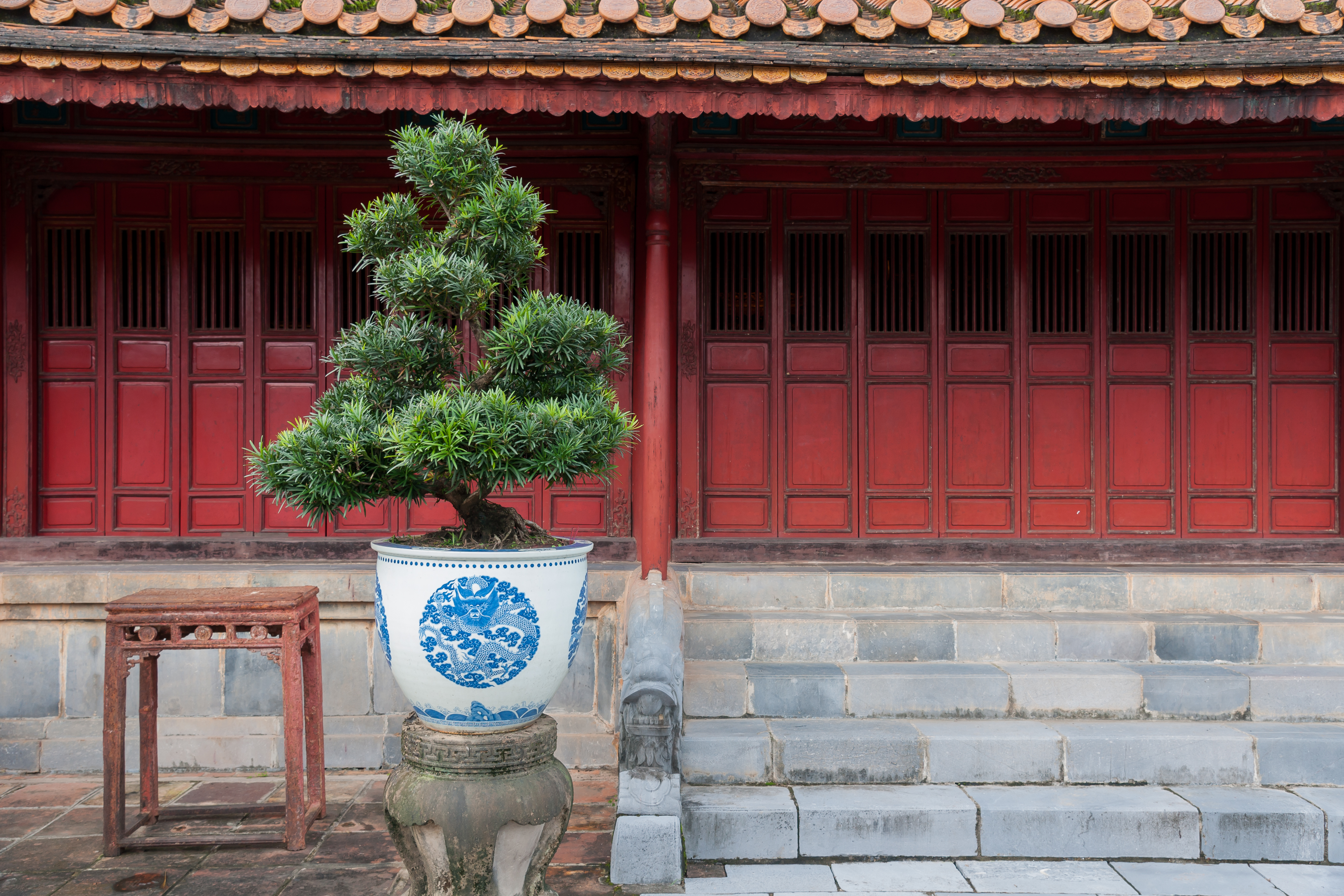 Hue, Vietnam: Detail of Điện Sùng Ân, on the way to the tomb of the Emperor Minh Mang in Hương Thọ, Huong Tra District, Thừa Thiên-Huế, Vietnam